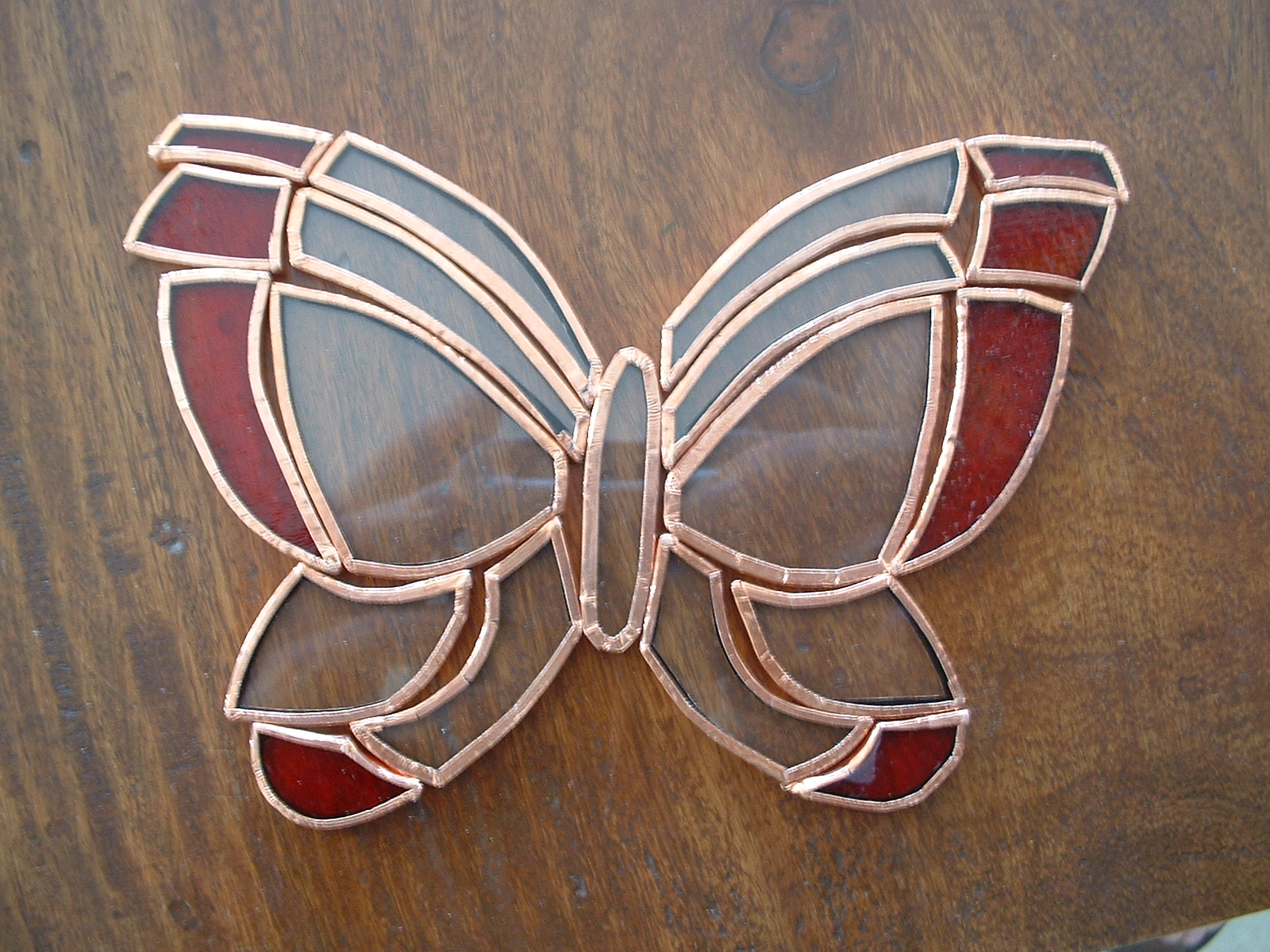 Copper-foil glasswork: glass wrapped with copper, before soldering. Glass Artist: my daughter; photographed by myself (Fuji FinePix 2650 camera)